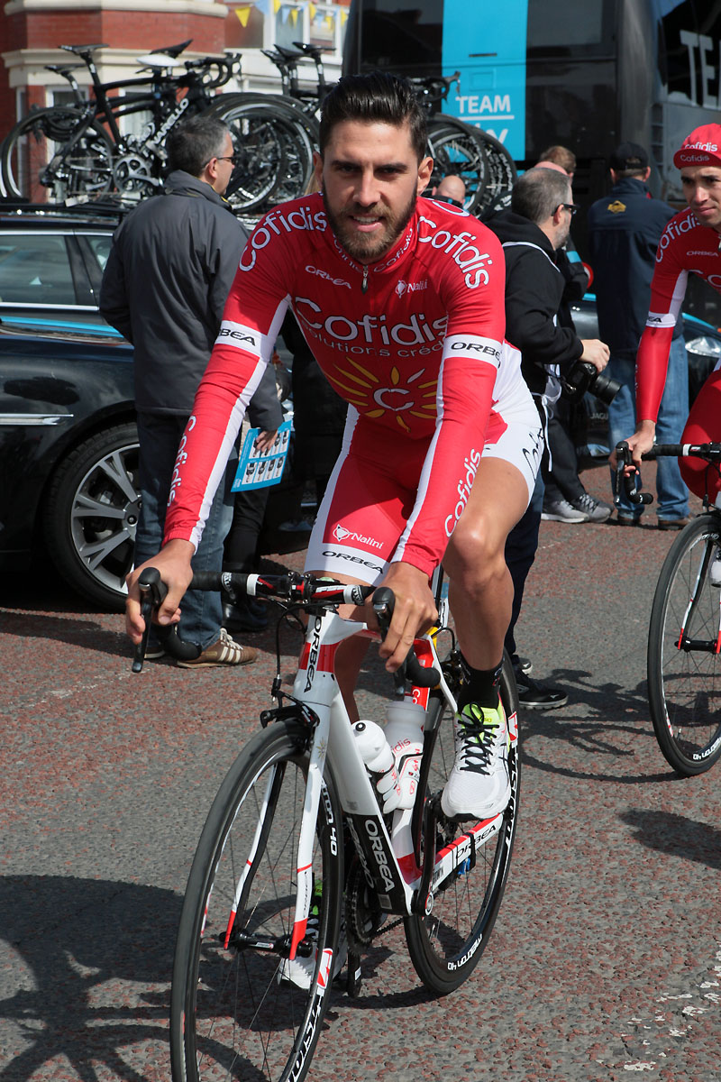 Beards are in this season